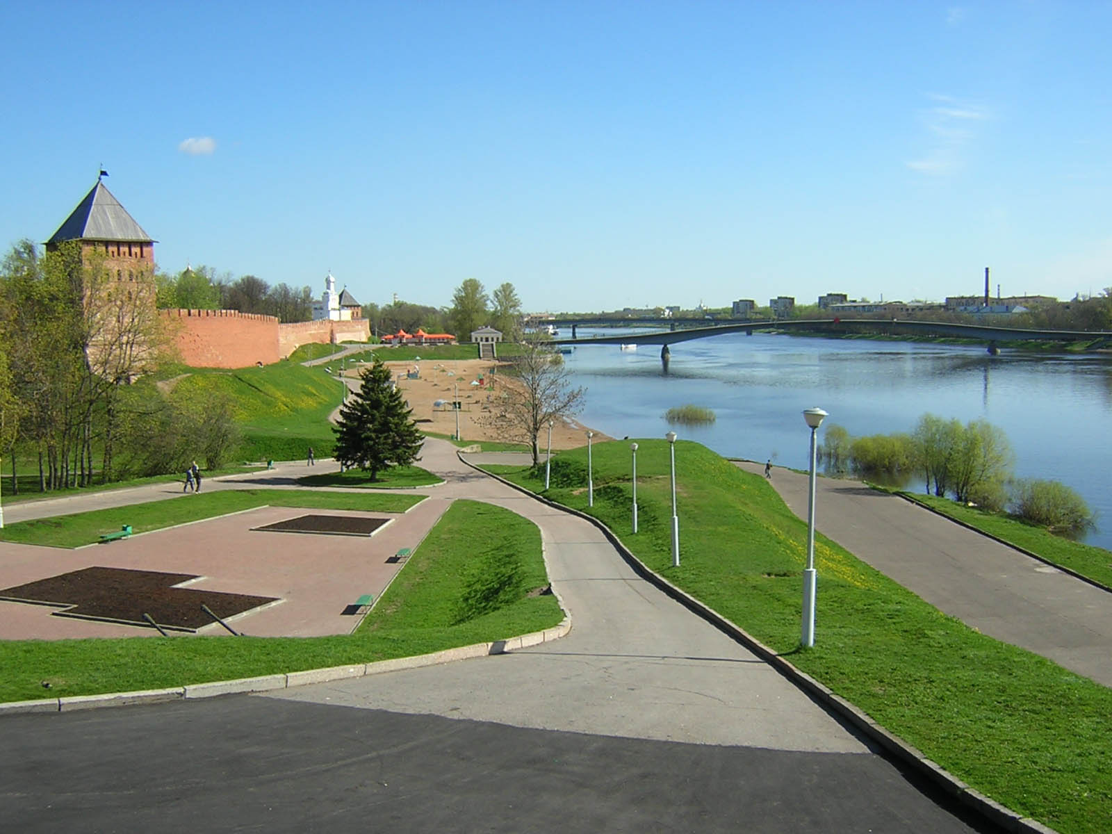 Veliky Novgorod